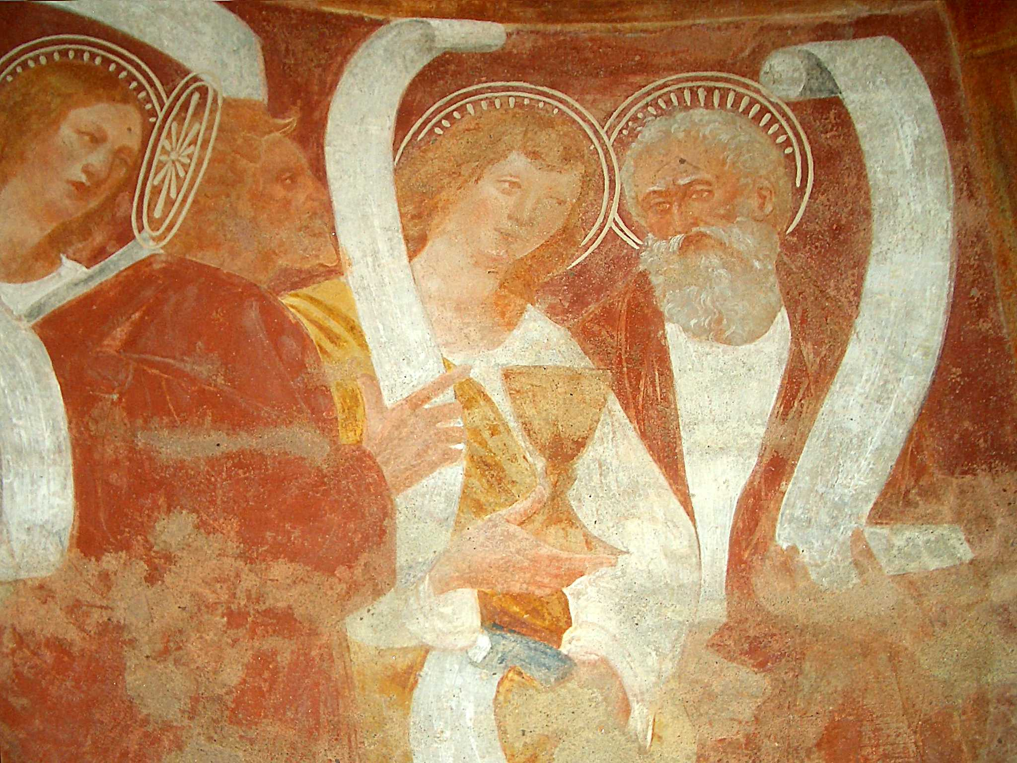 Follower of Gaudenzio Ferrari, Apostles, frescoes of the apse, XVI century, Bellinzago Novarese - Cavagliano, Chiesa di San Vito